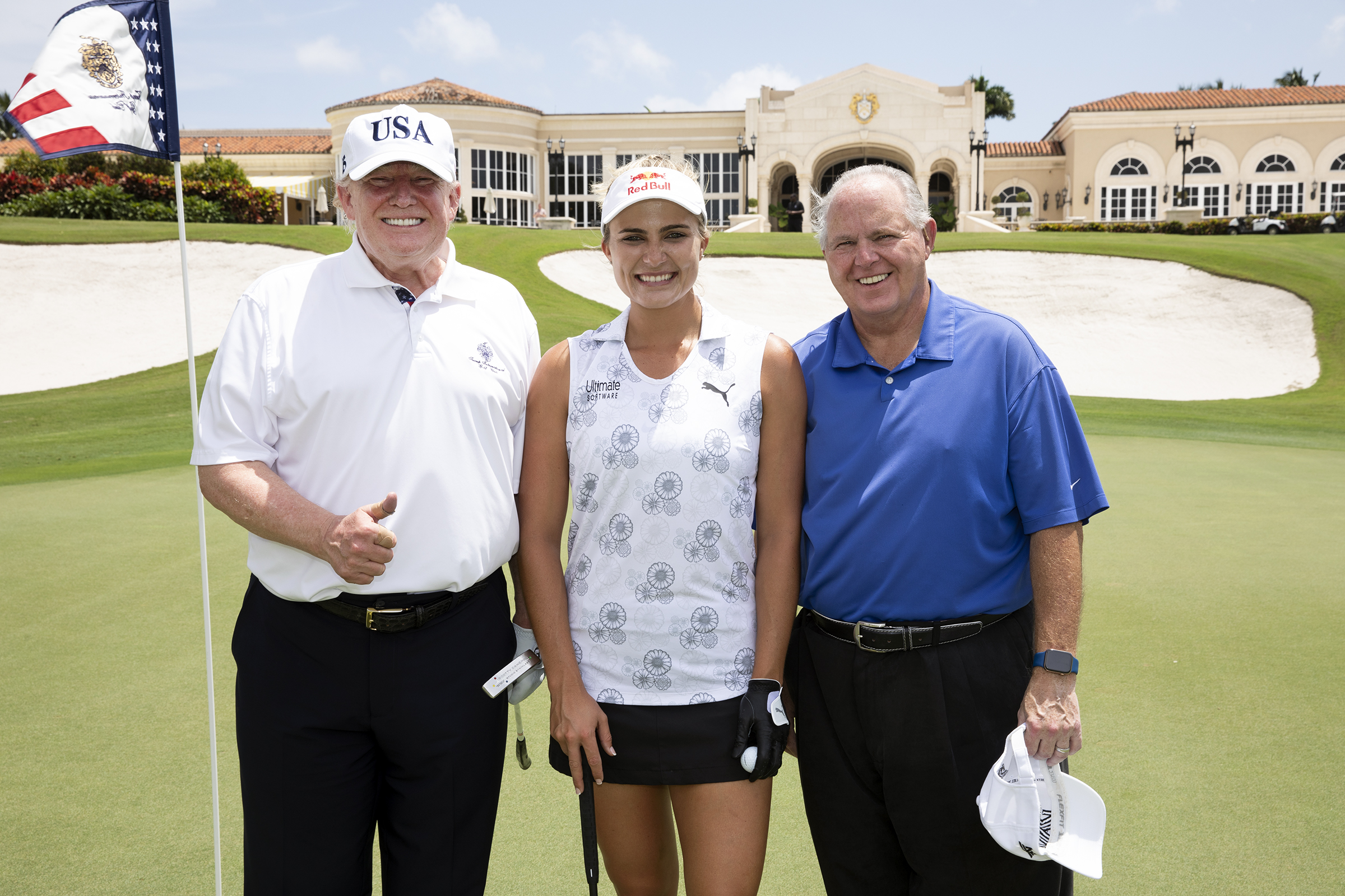 President Donald J. Trump, professional golfer Lexi Thompson and radio commentator Rush Limbaugh pose for a photo Friday, April 19, 2019, at the Trump International Golf Club in West Palm Beach, Fla. (Official White House Photo by Joyce N. Boghosian)